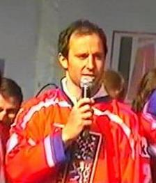 Martin Ručinský, Czech ice hockey player